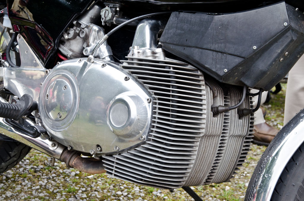 Burley Classic Vehicle Show 19/08/2012 Twin rotor air cooled rotary engine, 588cc.